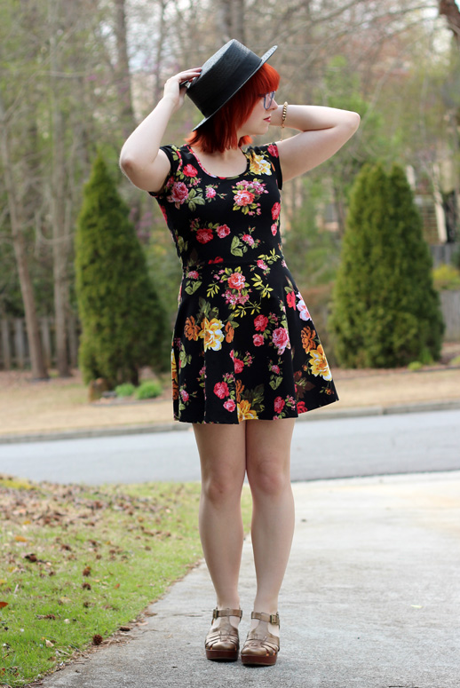 Black Boater Hat, Floral Print Dress, and Bronze Sandals Model